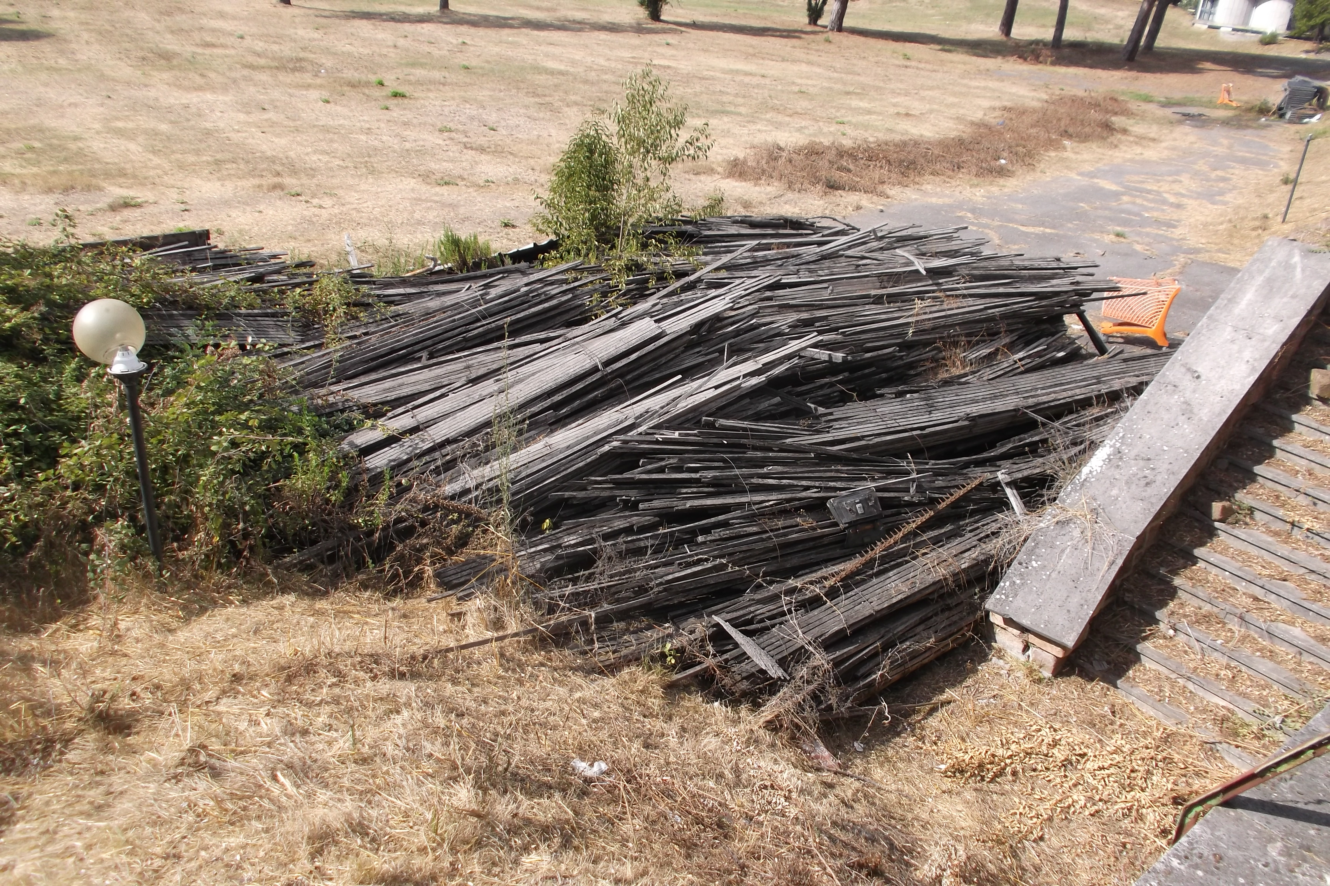 The remaining of the Cameroon Doussié wood of which were made the track of the Olympic Velodrome in Rome (1960); the track was designed by the German architects Clemens and Herbert Schürmann and was completely dismantled after 1968, the last year in which the Velodrome acted as venue for cycling races.